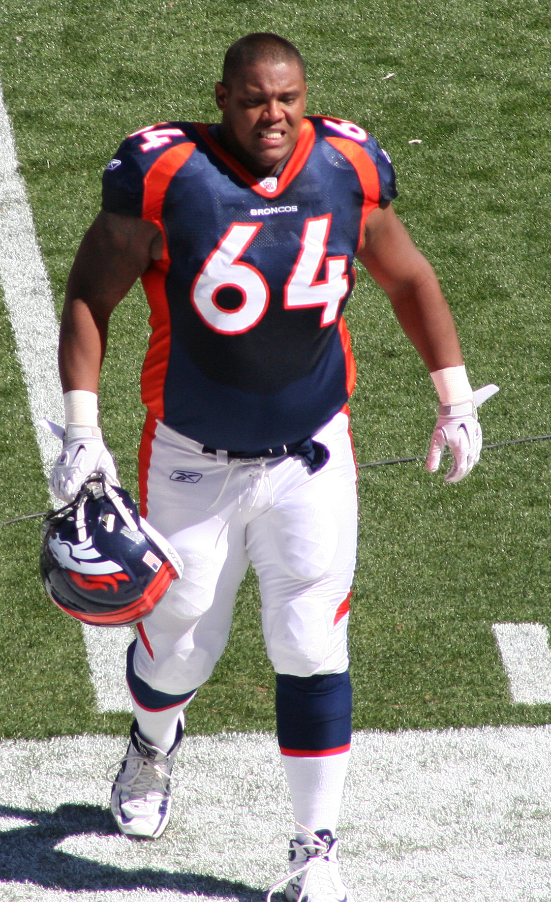 Stanley Daniels, a player on the Denver Broncos American football team.